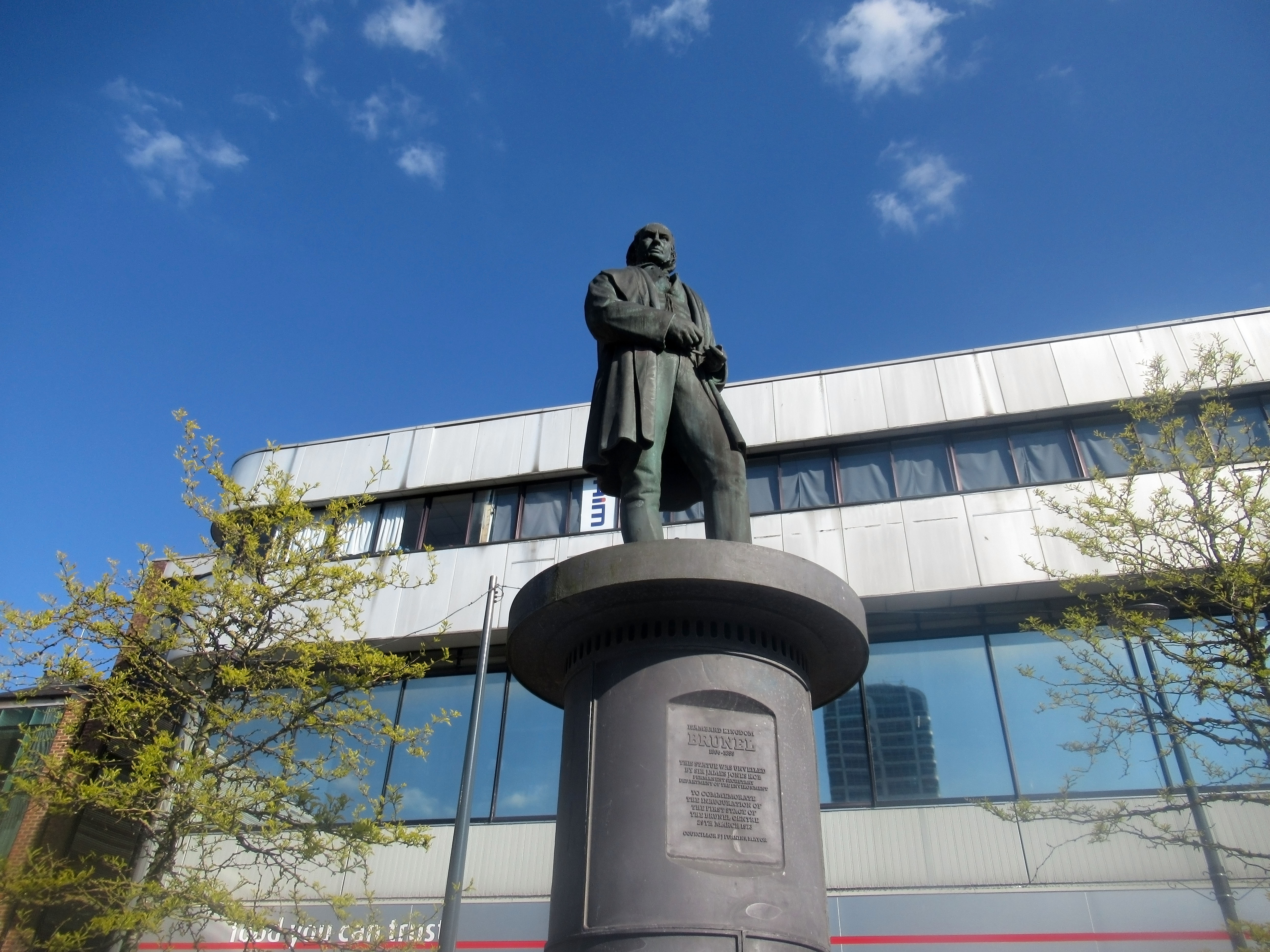 brunel